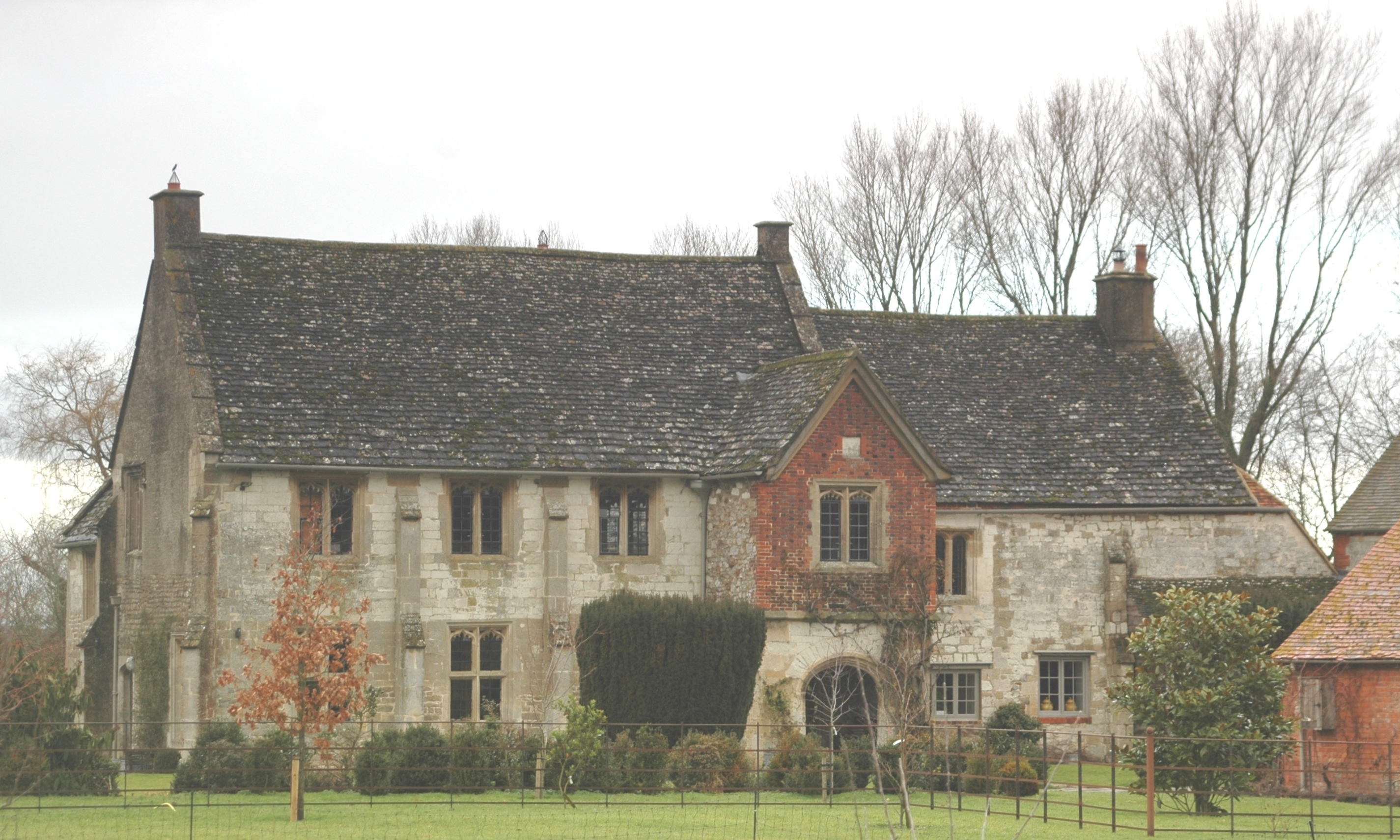 15th century manor house, Ashbury, Vale of White Horse, England